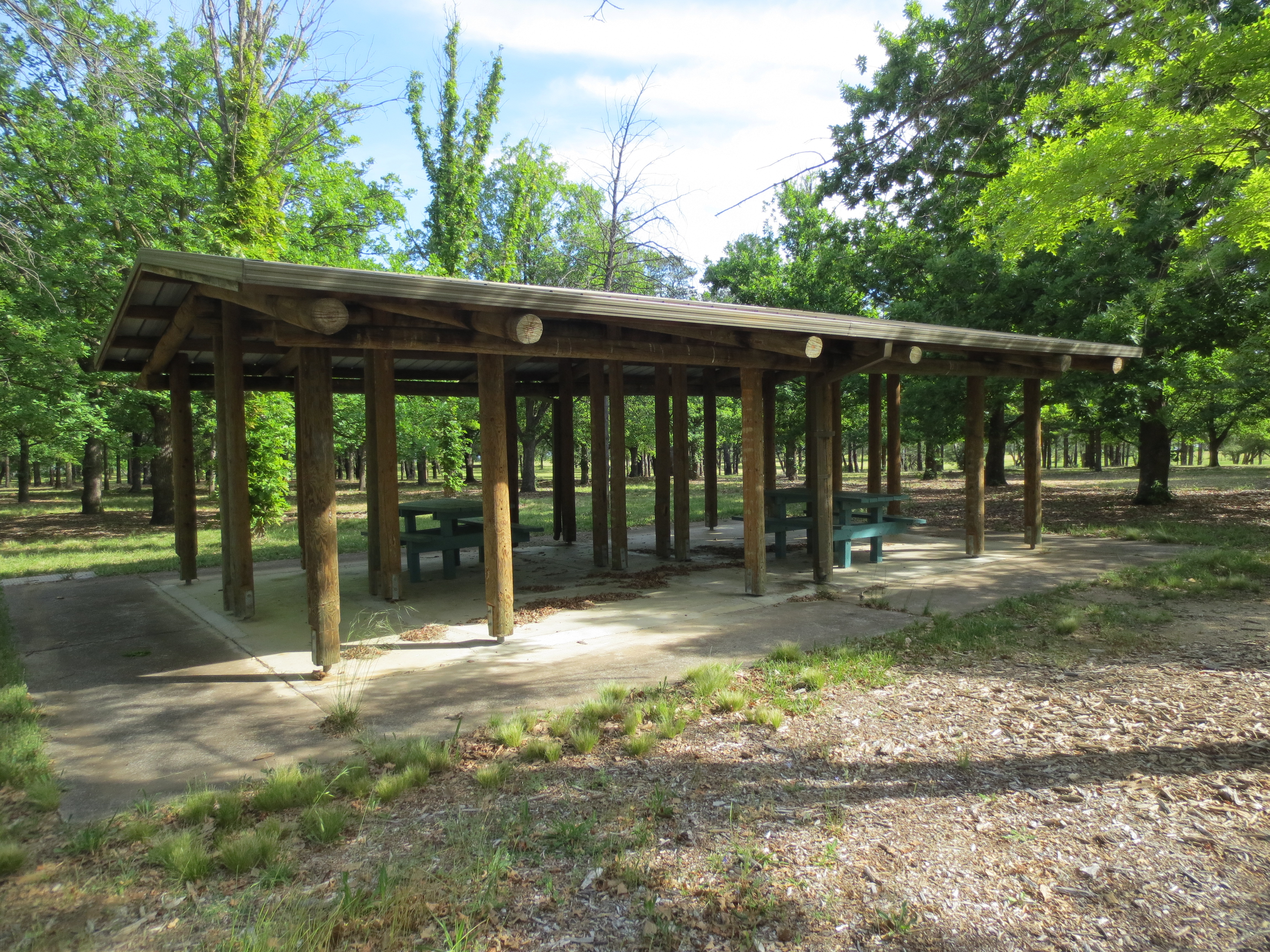 Picnic shelter with two wooden picnic tables in Canberra